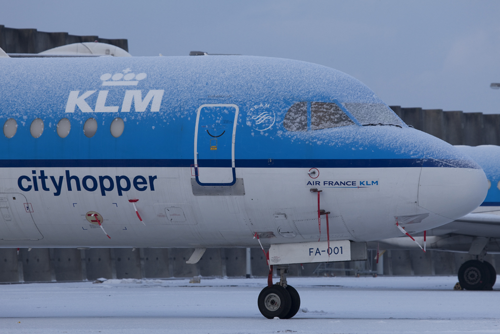 KLM city FK100